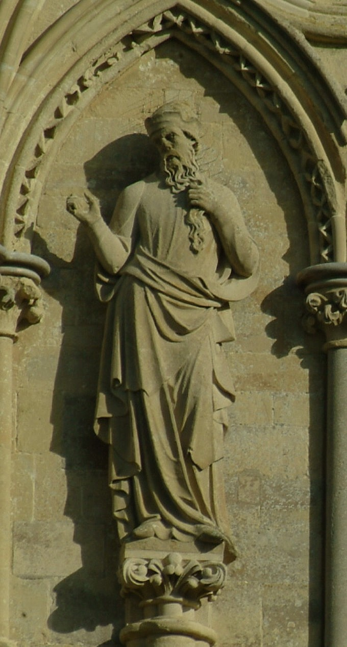 A statue of Samuel on the West Front of Salisbury Cathedral, UK.